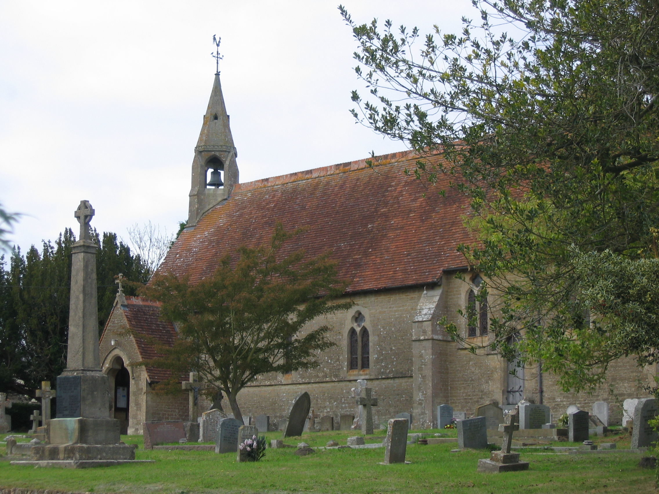 The nave, west bellcote and war memorial of SS Philip and James parish church, Chapmanslade, Wiltshire, seen from the southeast